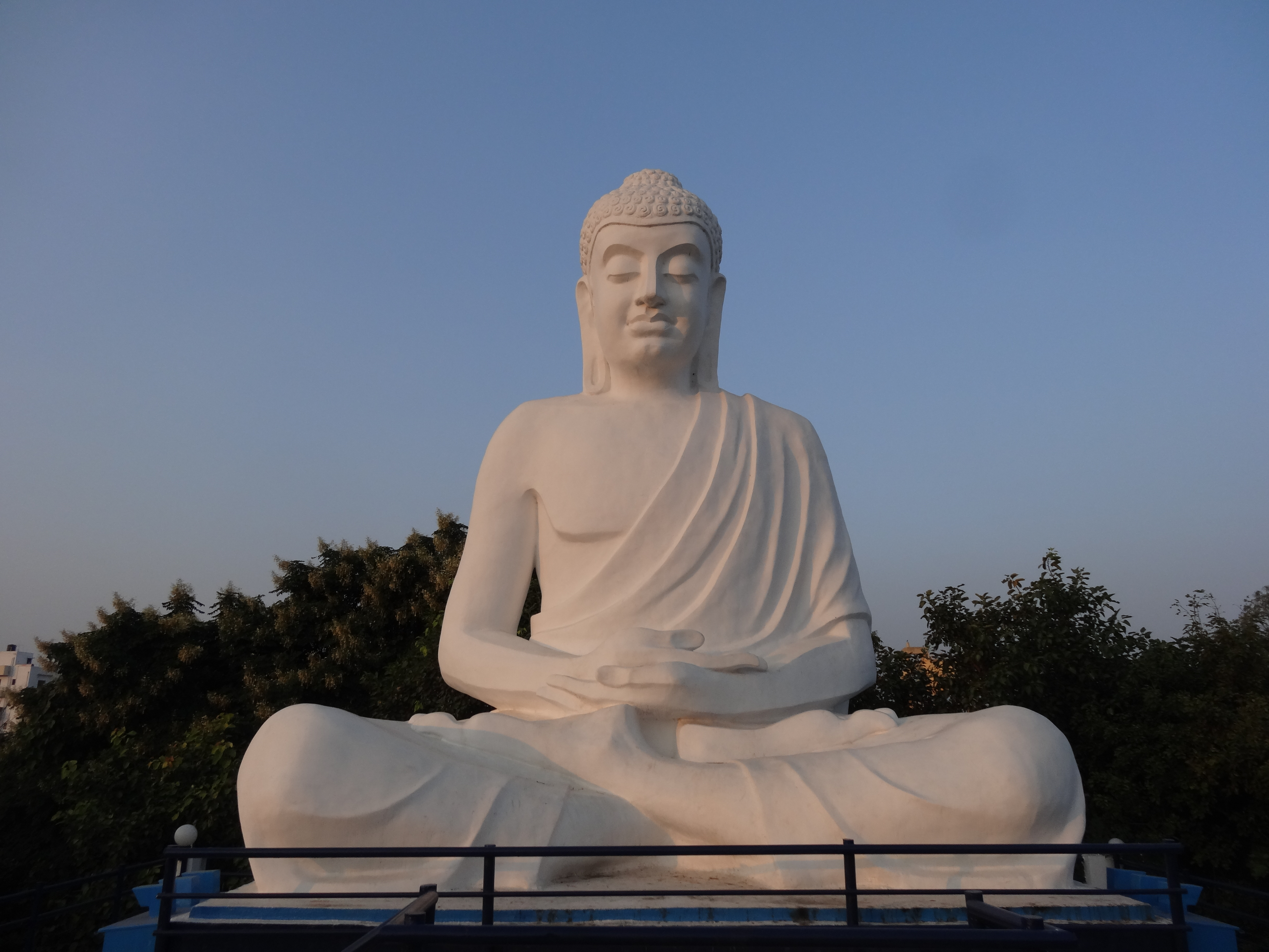 Buddha statue in Buddha Garden in Latur, Maharastra